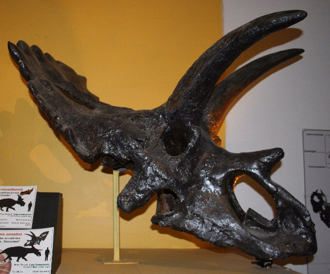 Anchiceratops skull cast, National Dinosaur Museum, Canberra